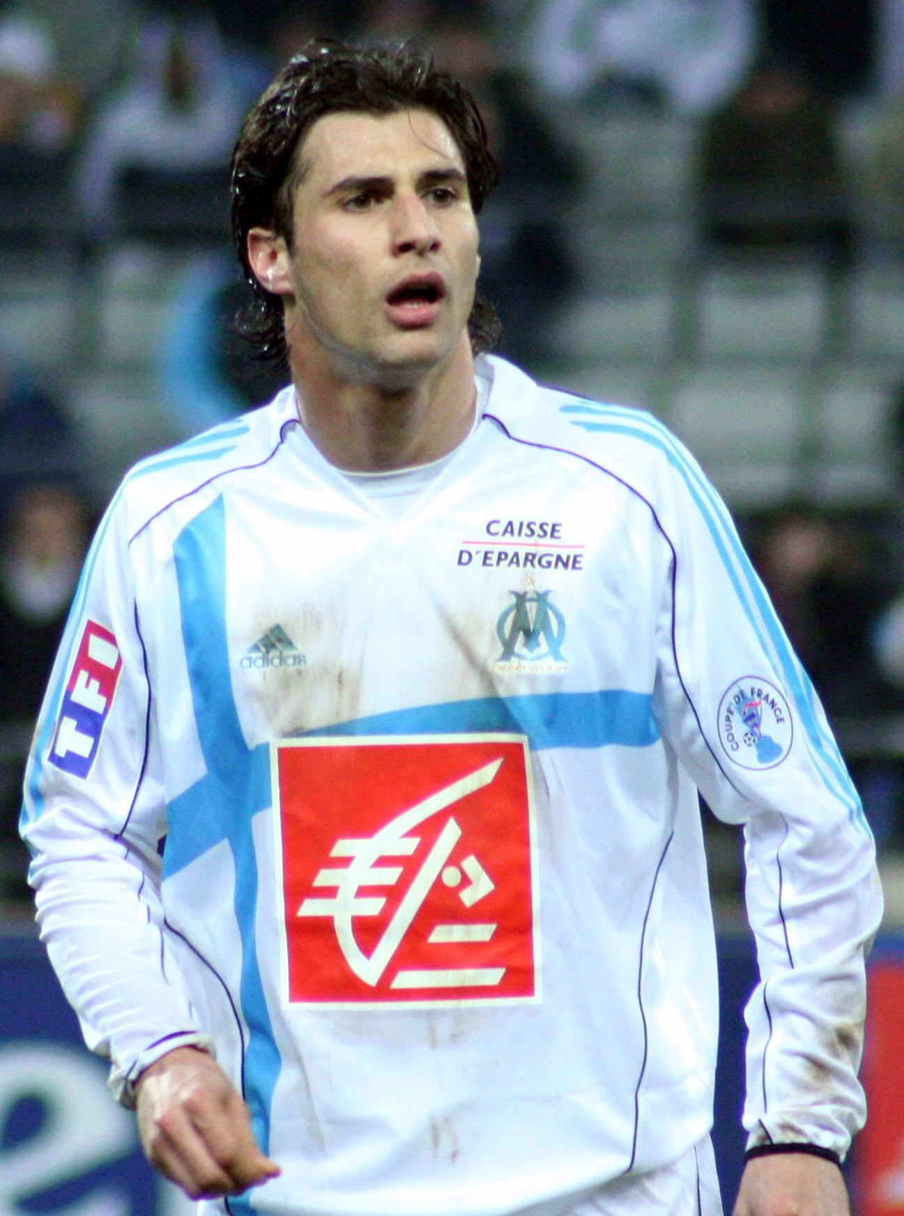 Picture of Lorik Cana during round of 32 of "Coupe de France" Versus FC Metz